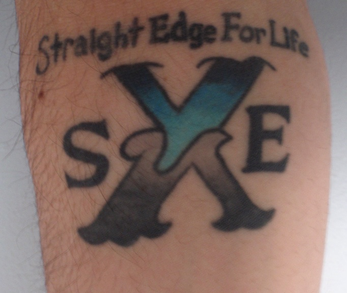 Photograph of a Straight Edge Tattoo